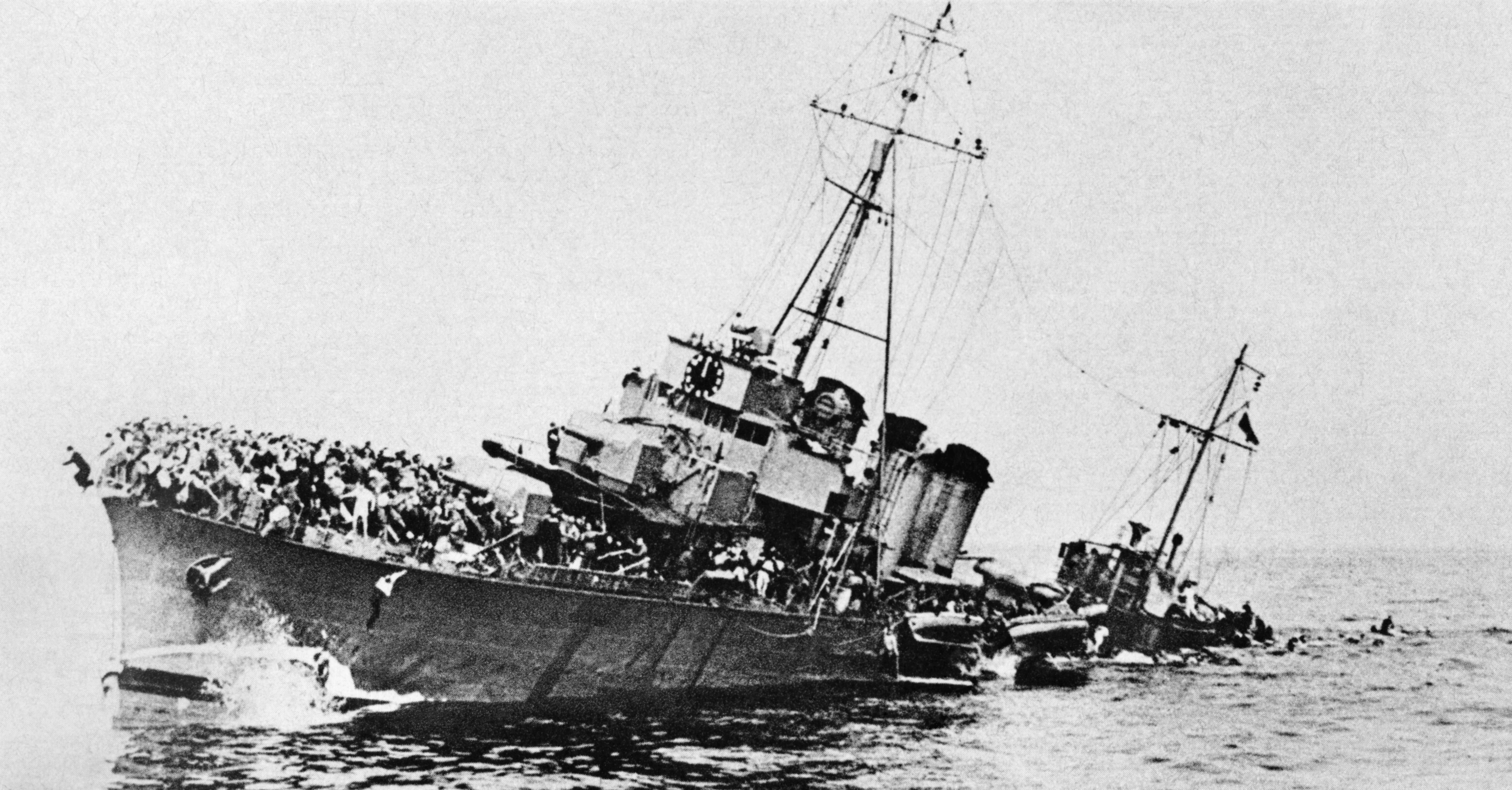 Dunkirk 1940 The French destroyer BOURRASQUE sinking off Dunkirk loaded with troops, 30 May 1940.